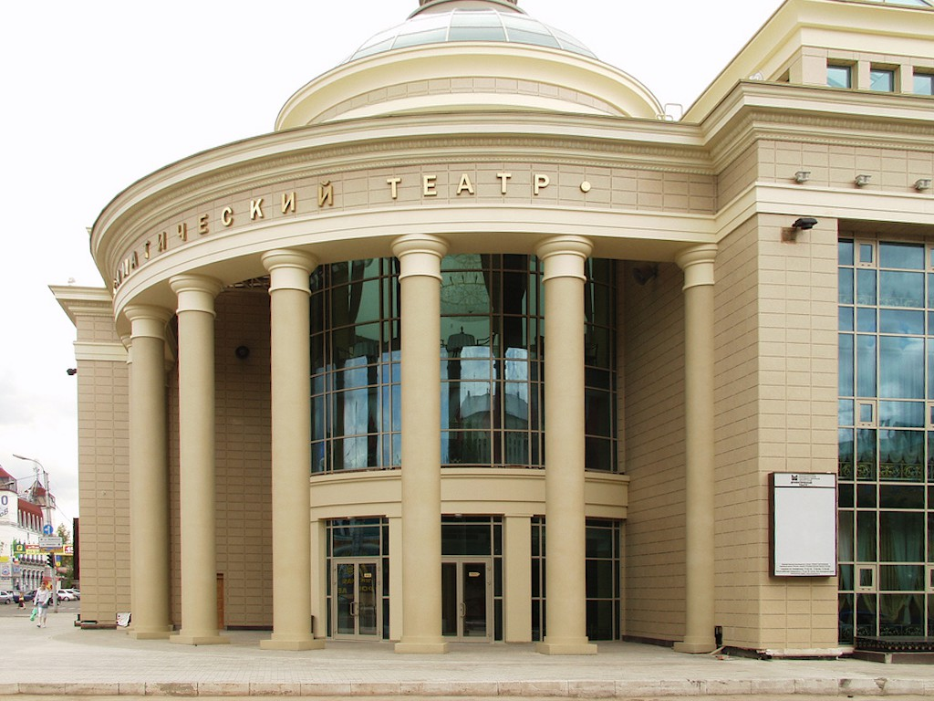 Orenburg Drama Theatre